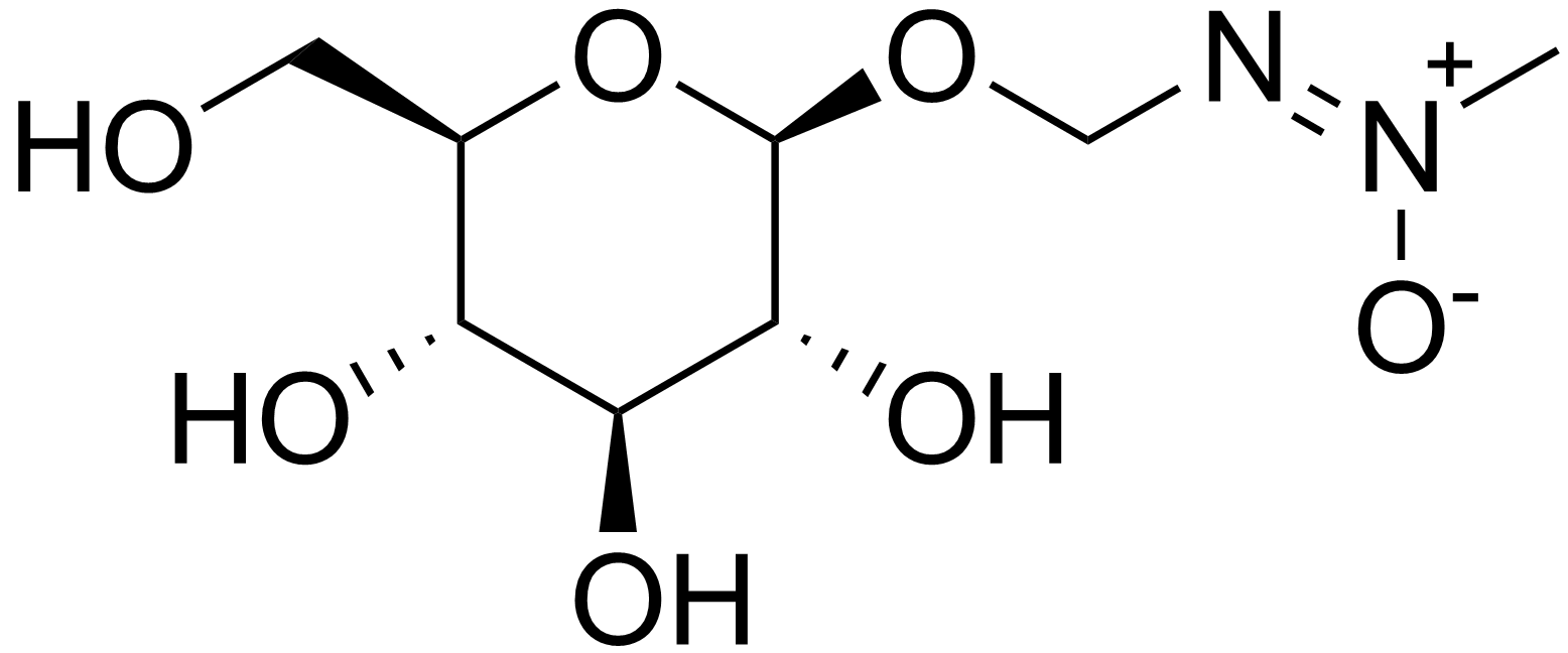 Chemical structure of Cycasin